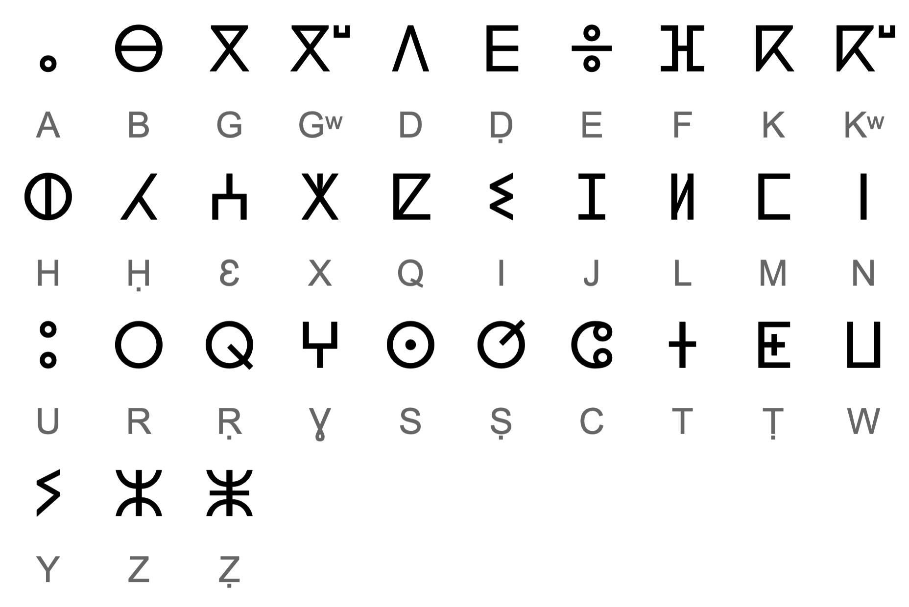 The 33 letters of Tifinagh alphabet, according to IRCAM (Royal Institute of Amazigh Culture), and below the correspondences in the Berber Latin alphabet.